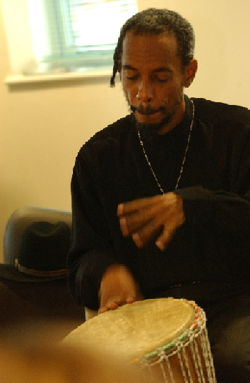 This image is owned by User:Cascadura whom took this image. If any problems arise from this image, please contact User:Erebus555 on their talk page.